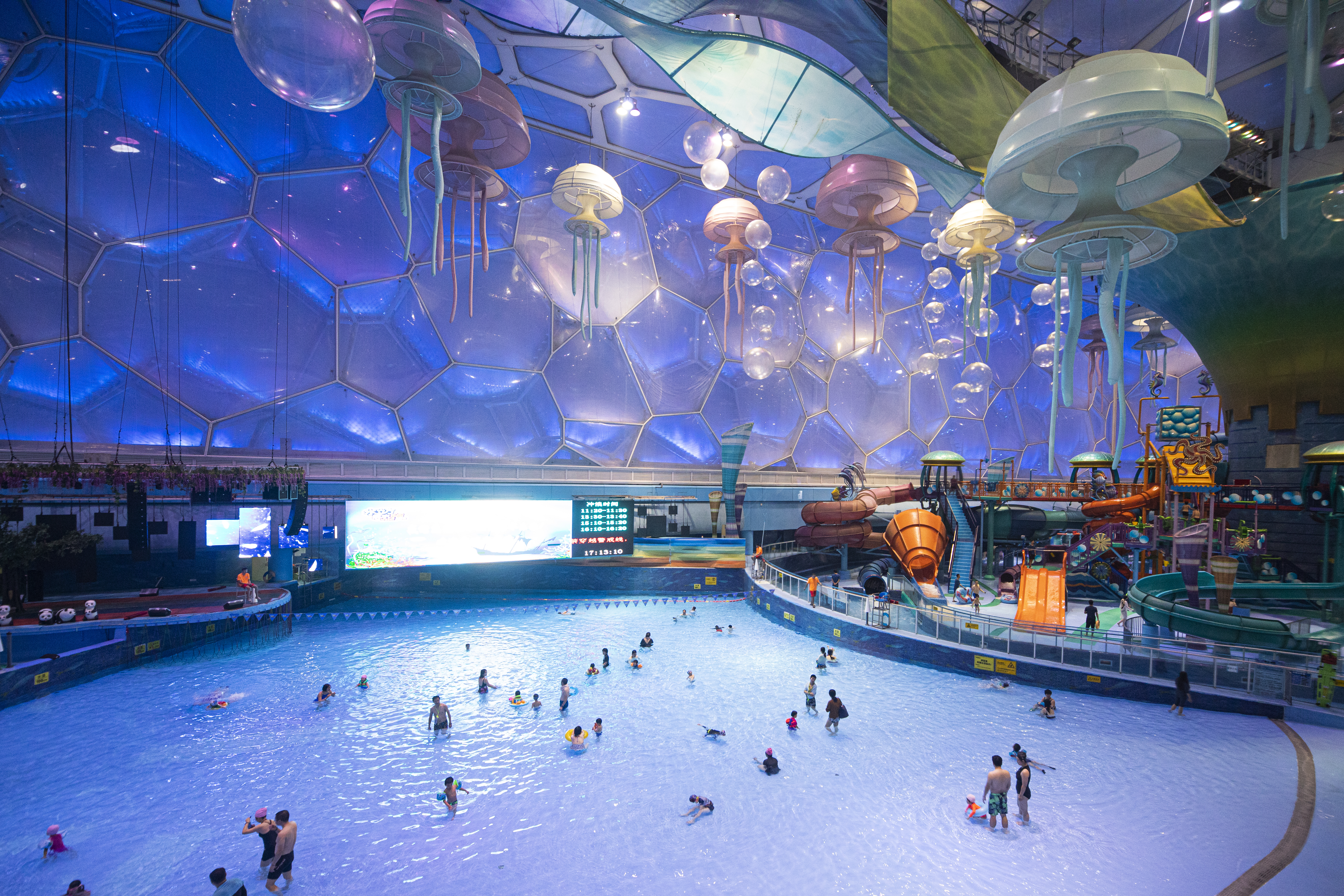 Beijing National Aquatics Centre